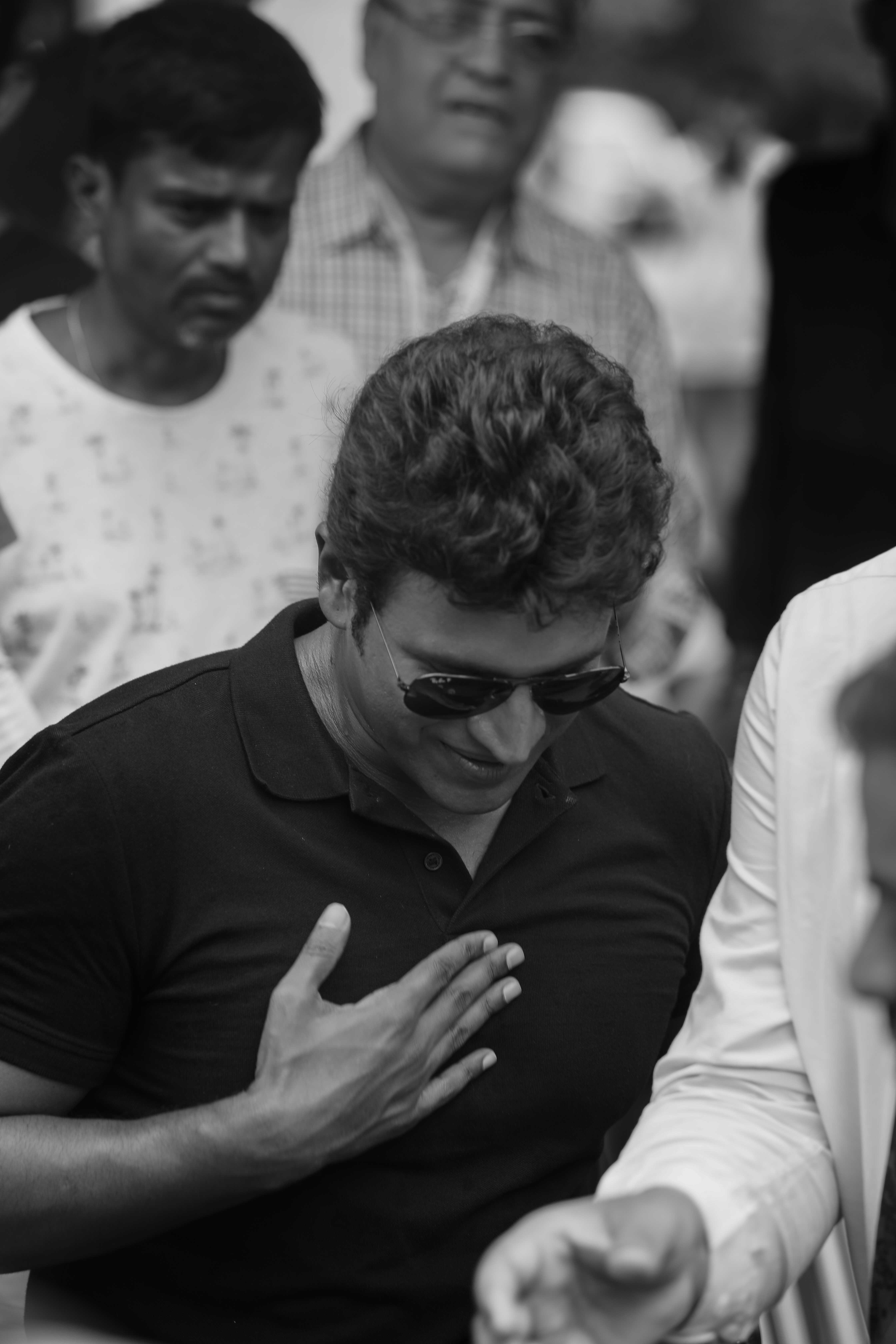 rajakumara movie shooting image